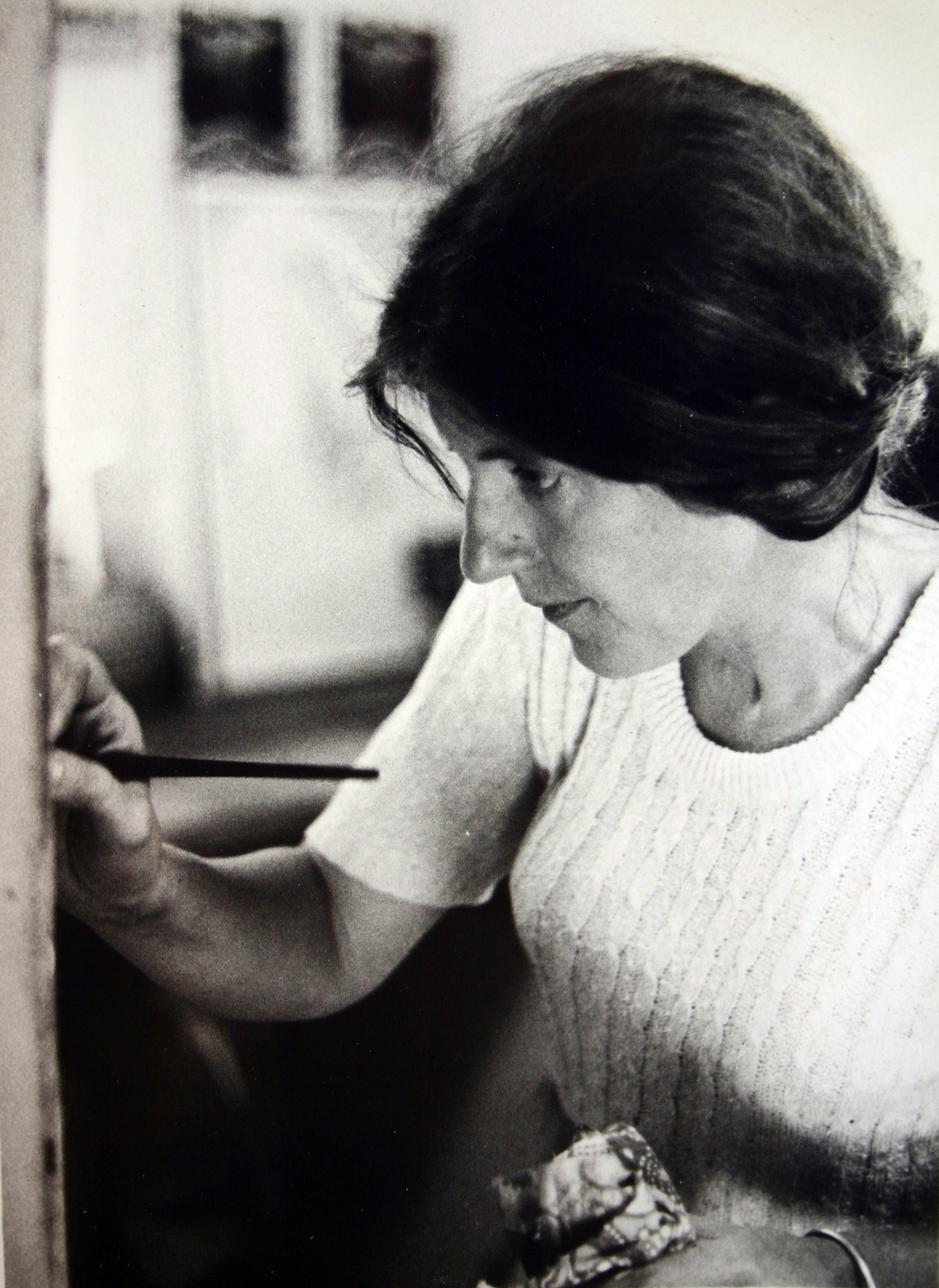 portrait of Judith Mason, South African painter